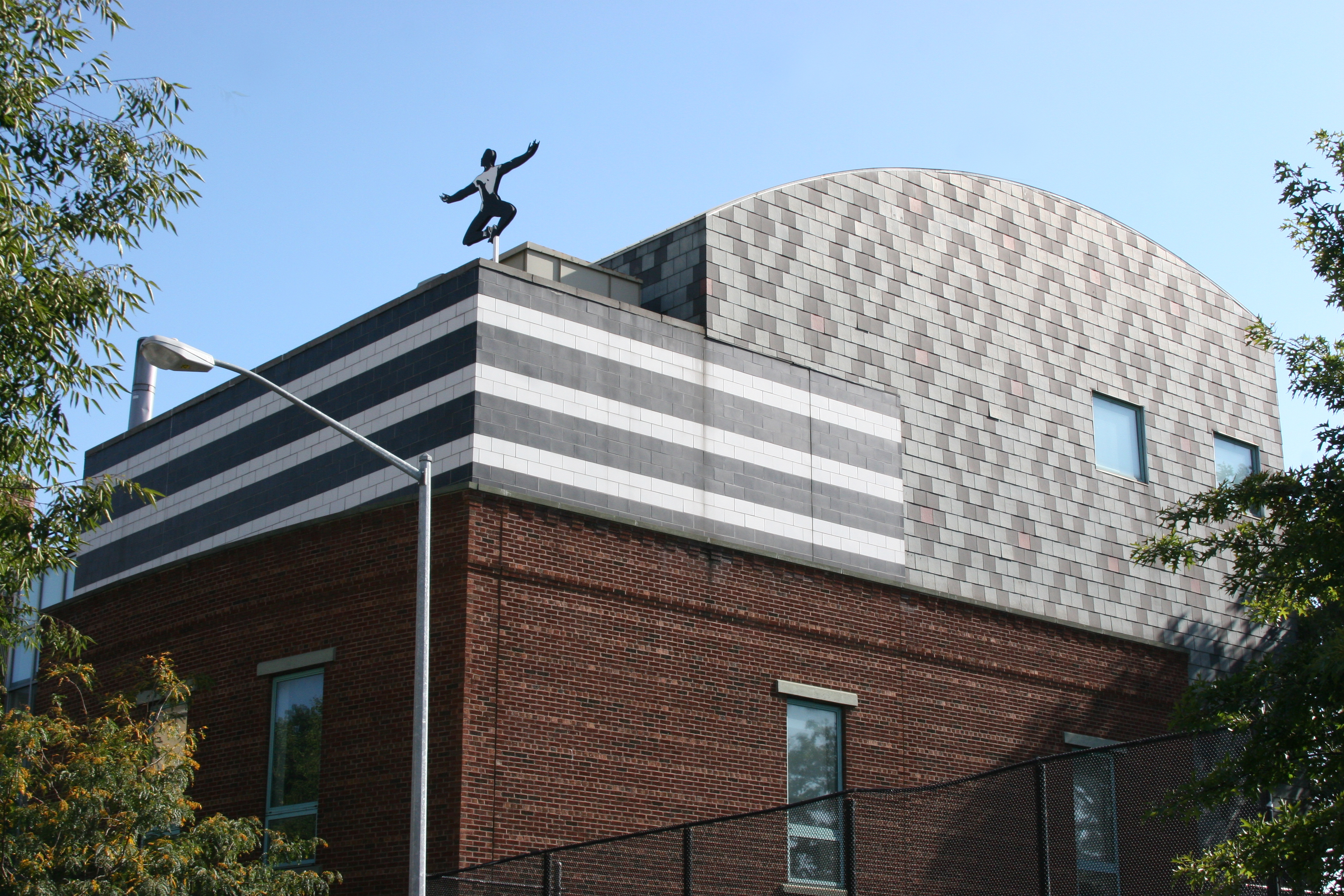 Dance Theatre of Harlem